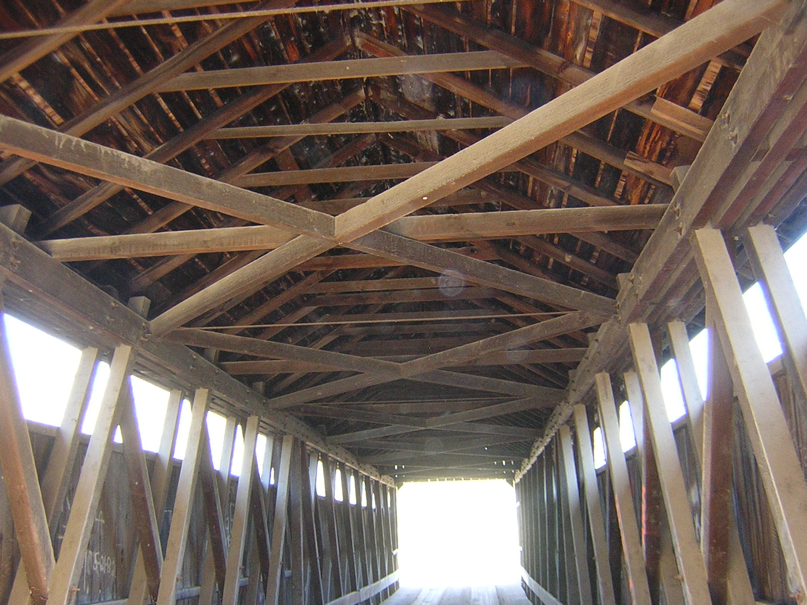 Interior view of Whites Bridge near Smyrna, Michigan, on the Flat River, showing brown truss detail.